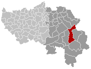 Map, municipality belgium Waimes